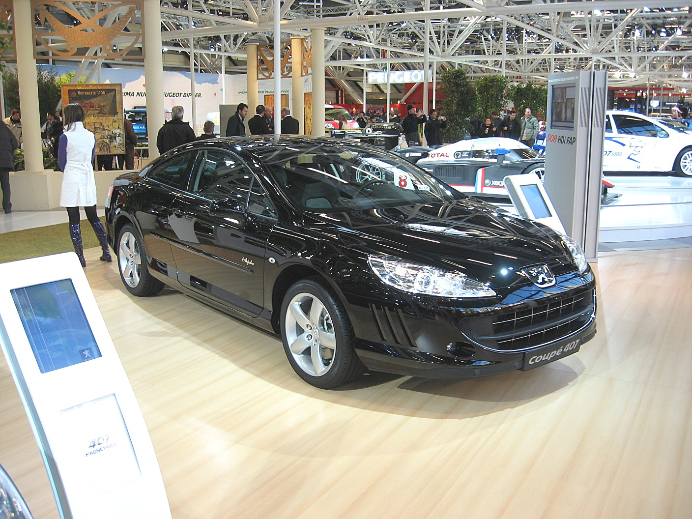 Subject:Peugeot 407 Coupé Author:Luc106 Date:December 13th, 2007 Event:Motor Show Bologna 2007 Place/Country: Bologna, Italy I release all rights in the public domain.